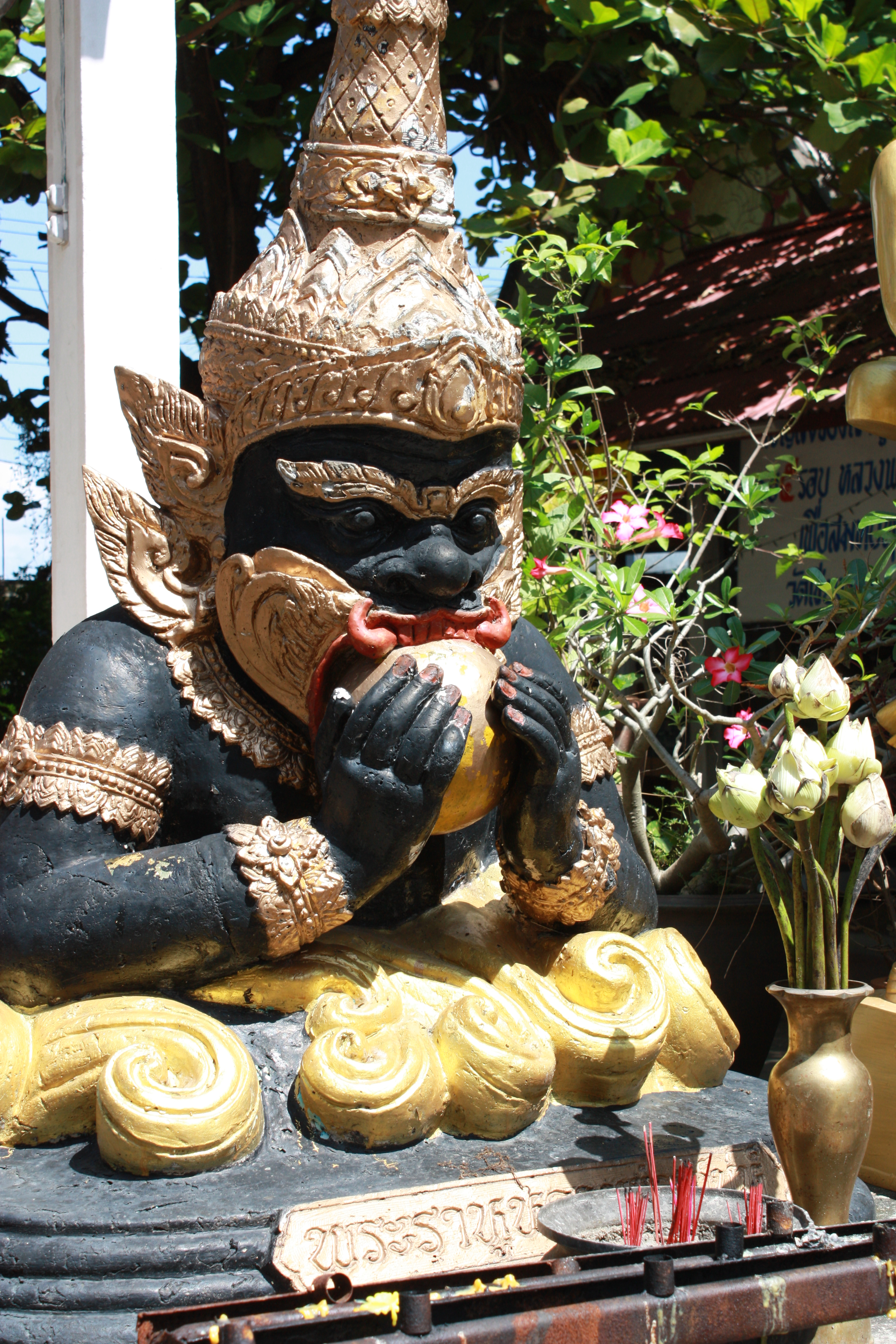 Rahu in Wat Chiangkang Sarapee Chiang Mai Thailand